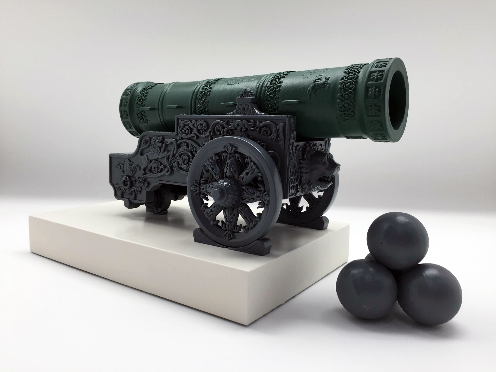 A 3D printed tactile replica of the Tsar Cannon.